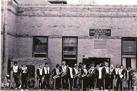 The North Dakota State University Gold Star Marching Band Outside Minard Hall in the 70s